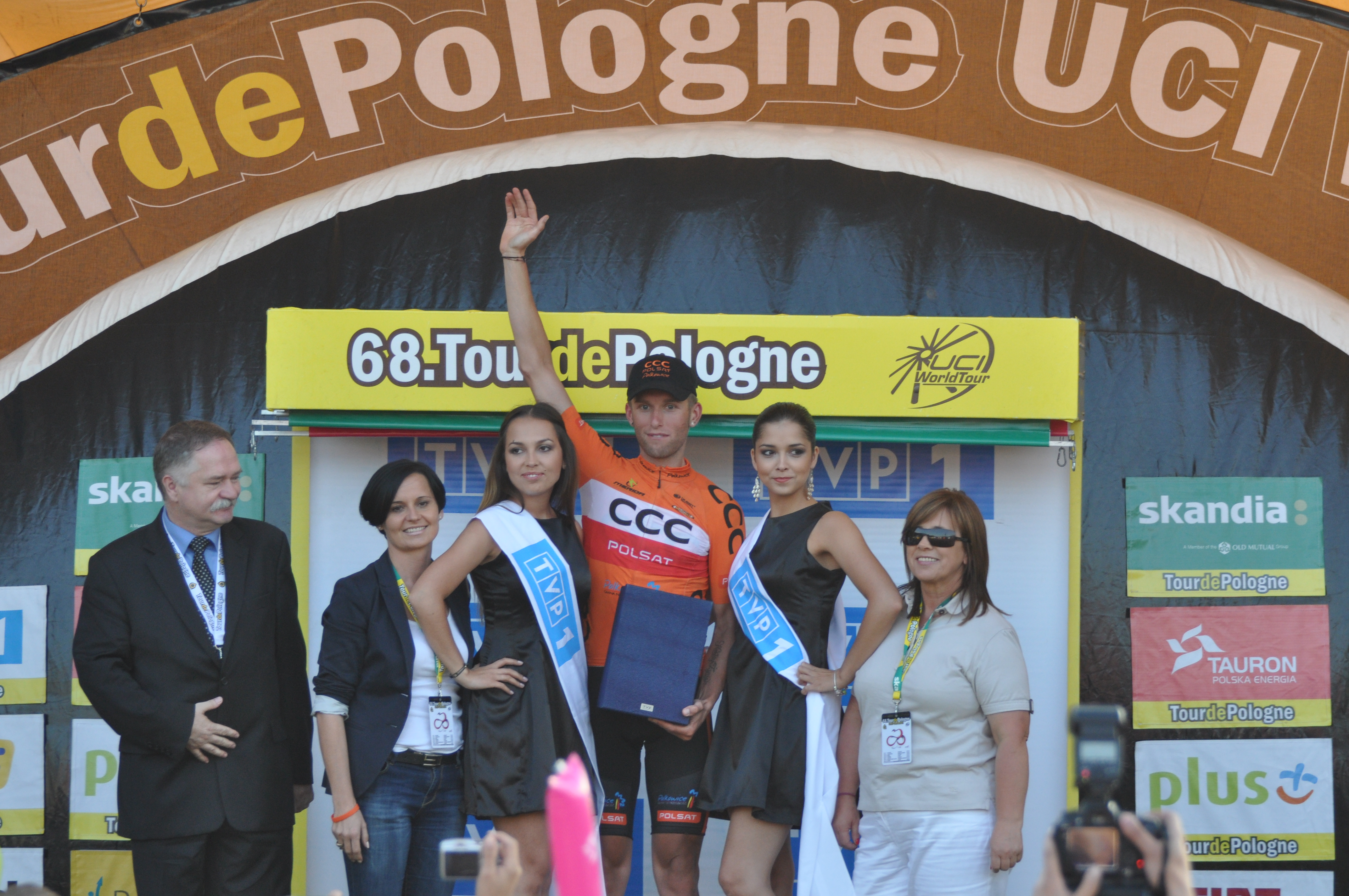 2011 Tour de Pologne